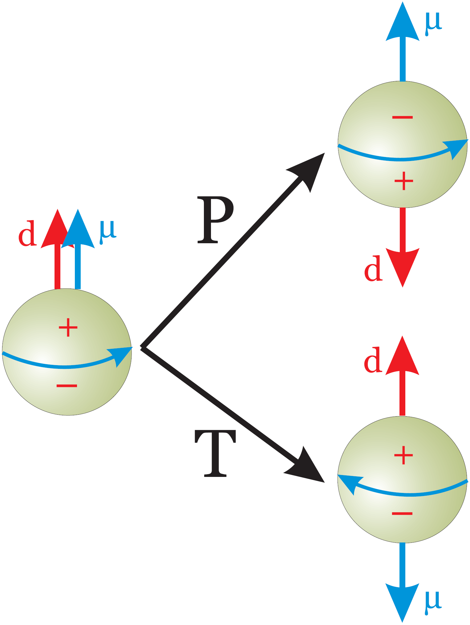 Parity (P) and time reversal (T) violation in the presence of an electric dipole moment in addition to the magnetic moment of the neutron